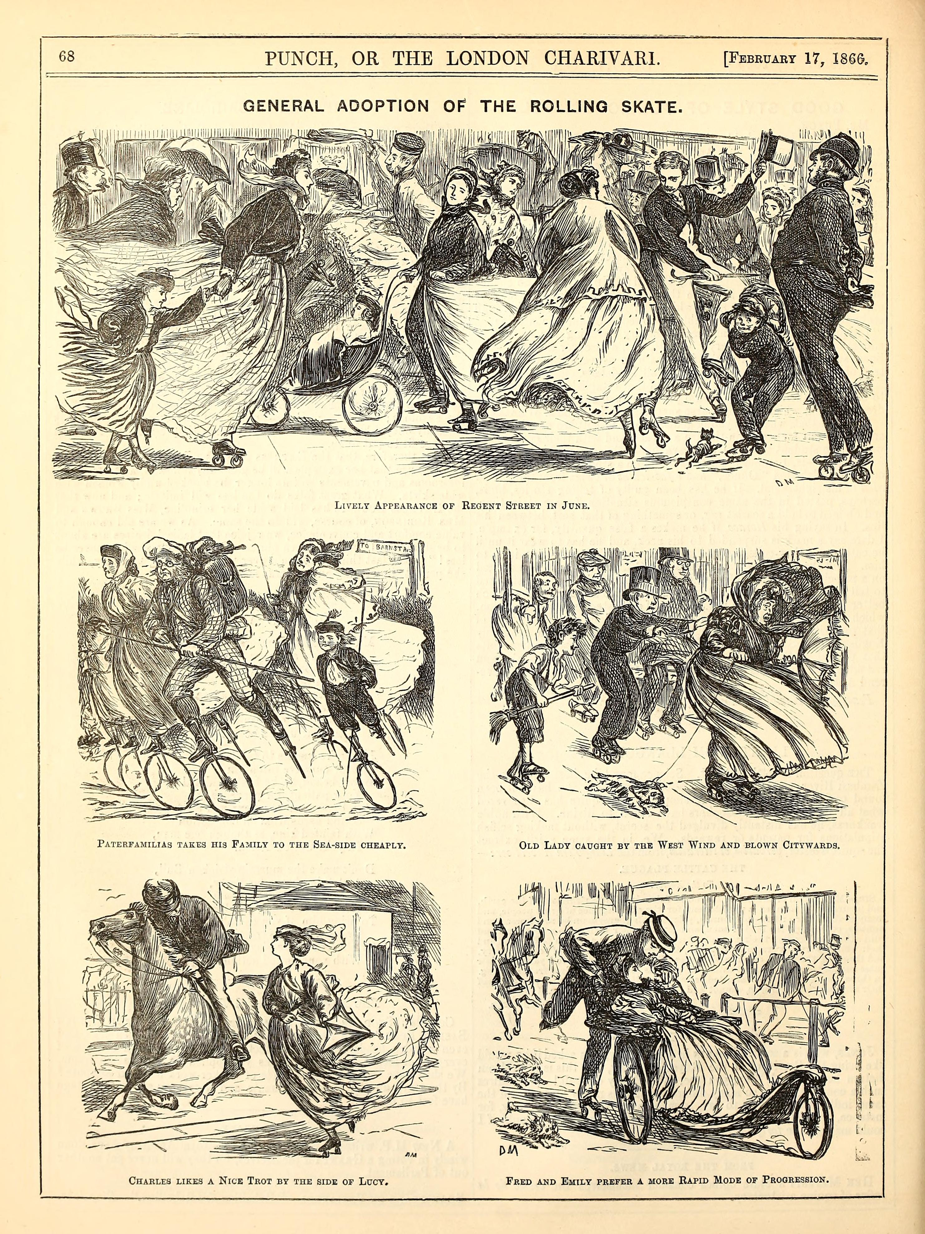 Cartoon in Punch in 5 panes: "General adoption of the rolling skate. Lively appearance of Regent Street in June. Paterfamilias takes his family to the sea-side cheaply. Old lady caught by the west wind and blown citywards. Charles likes a nice trot by the side of Lucy. Fred and Emily prefer a more rapid mode of progression."